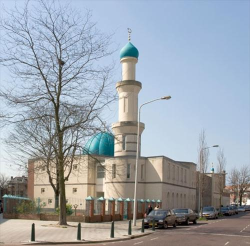 Mosque, Bloemfonteinstraat/Scheeperstraat, Transvaal, The Hague, Netherlands.